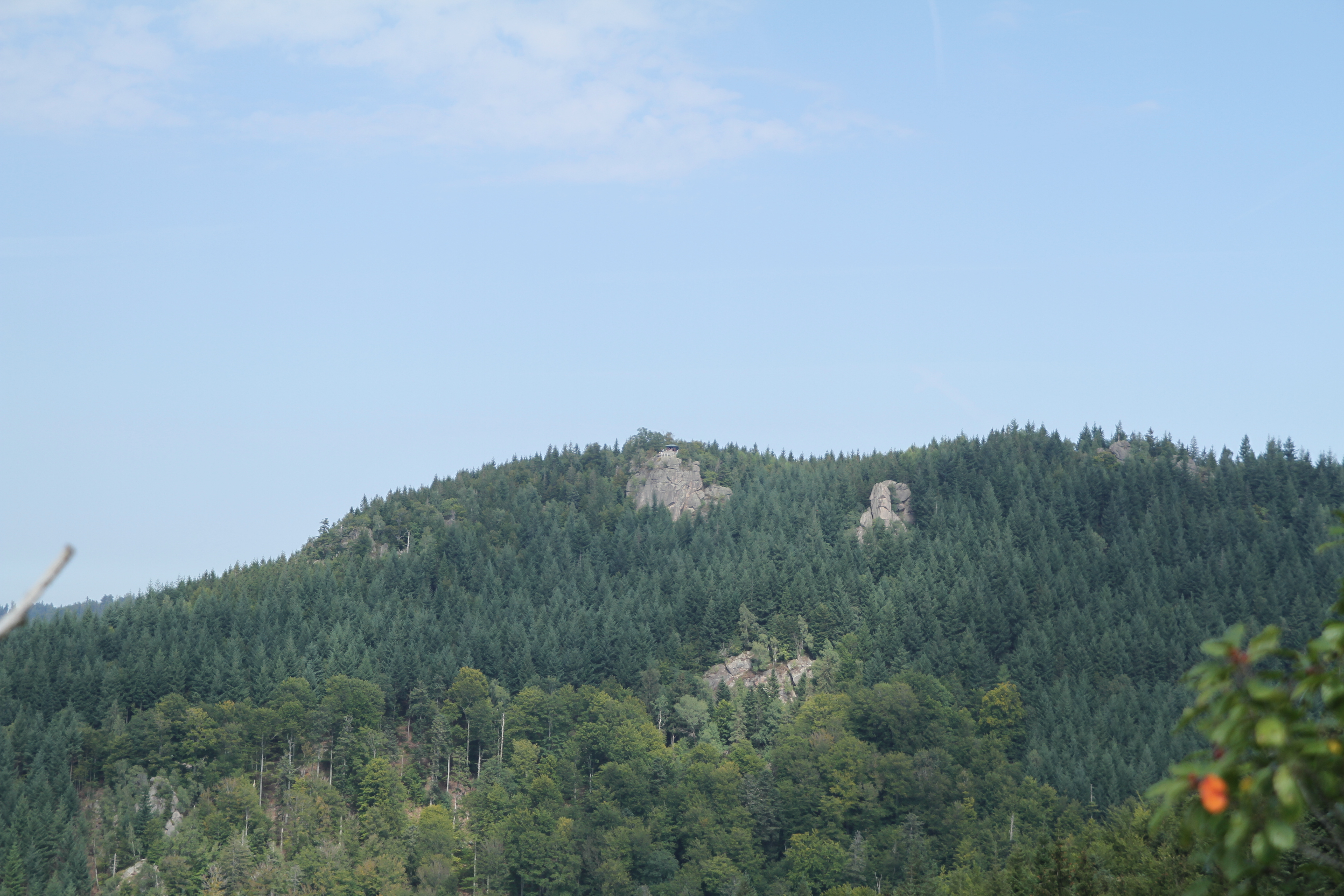 View of the Herta Hut and the Falcon Rock from the Wieden Rock in the Black Forest.